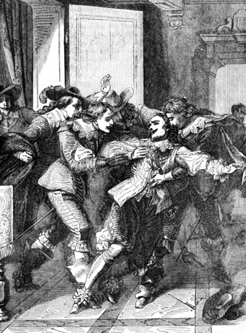 The title is the same as the image caption above and in "Cassell's Illustrated History of England, Volume 3". The number shown is the page number. Follow the image link to the full book vol.3.